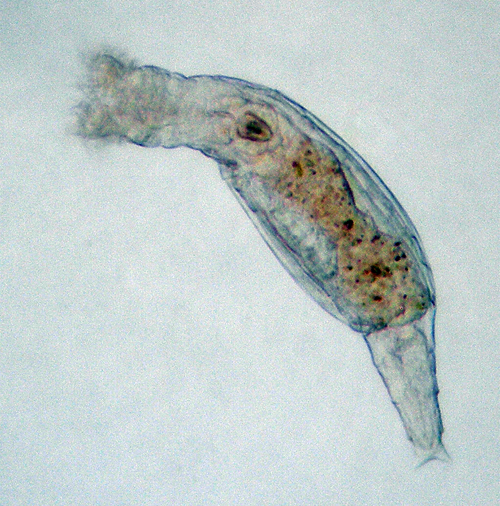 Habrotrocha rosa, a bdelloid rotifer found only within the pitcher leaves of Sarracenia purpurea.